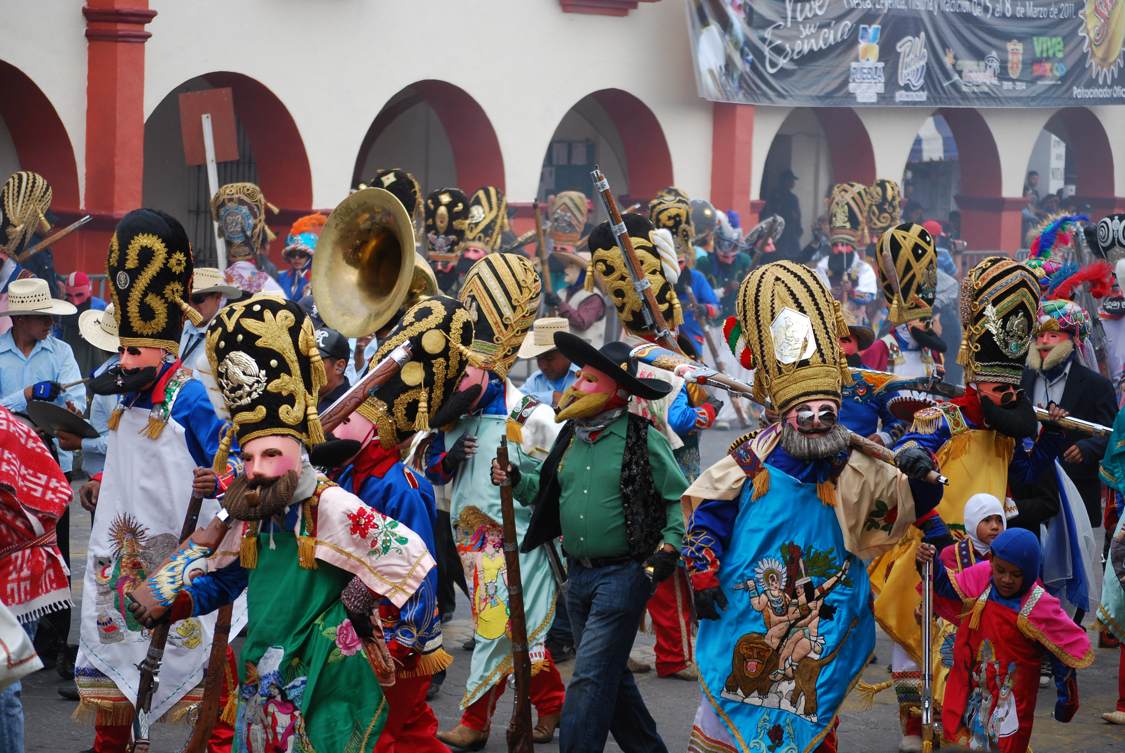 Zapadores at the Carnival of Huejotzingo, Puebla, Mexico